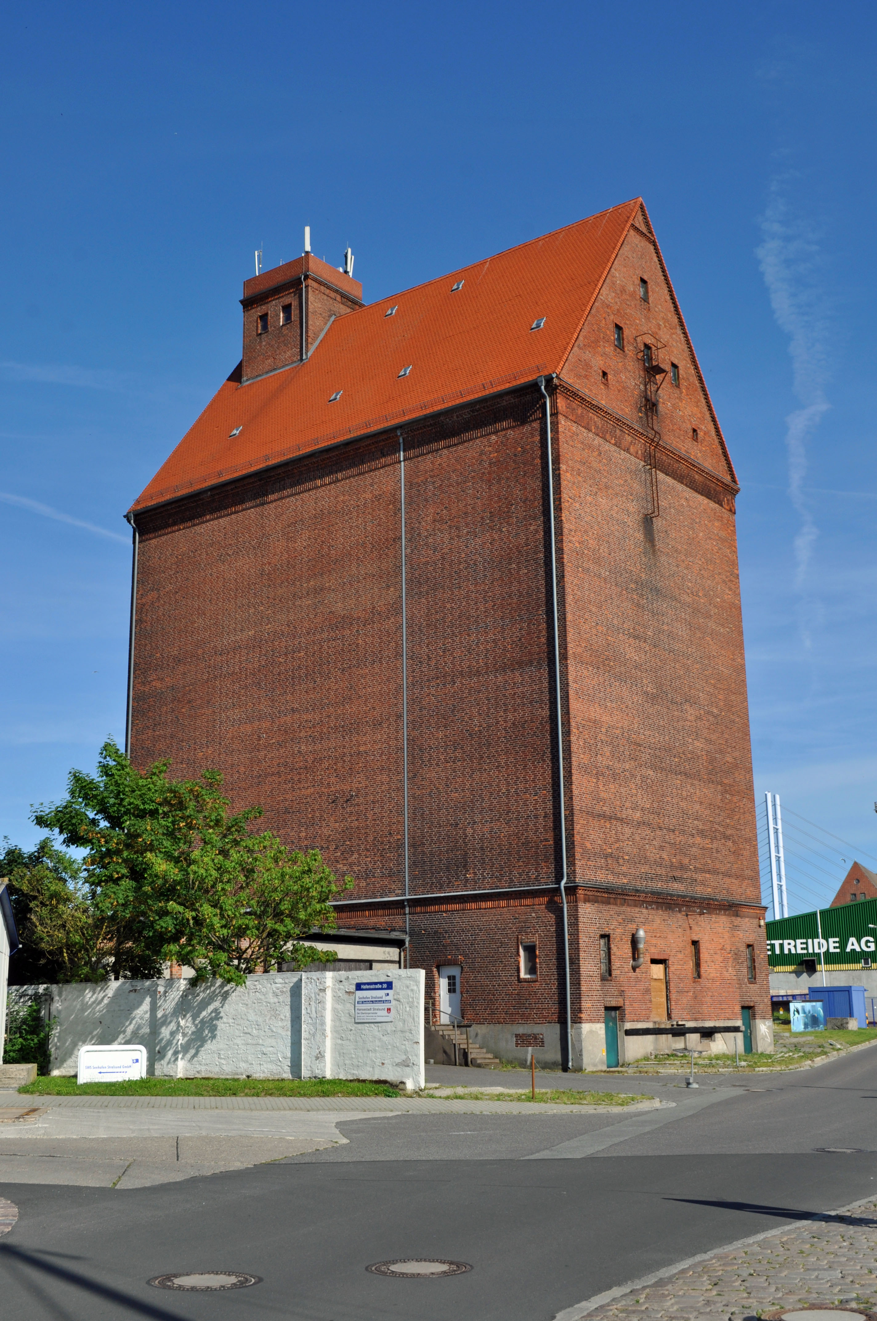 Gebäude in Stralsund, siehe Dateiname This is a photograph of an architectural monument.